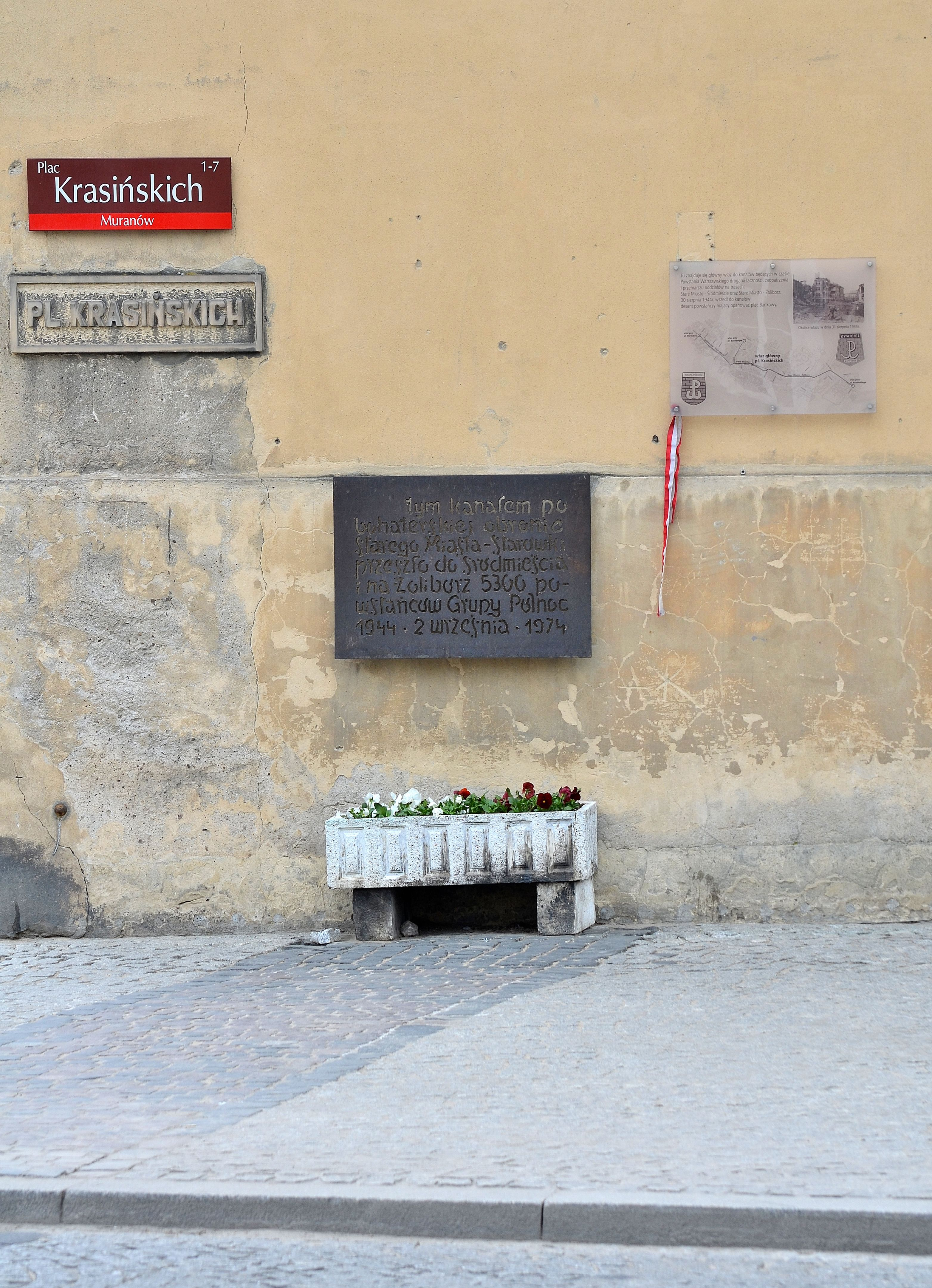 Commemoration of the entrance to the channel in Krasiński Square in Warsaw